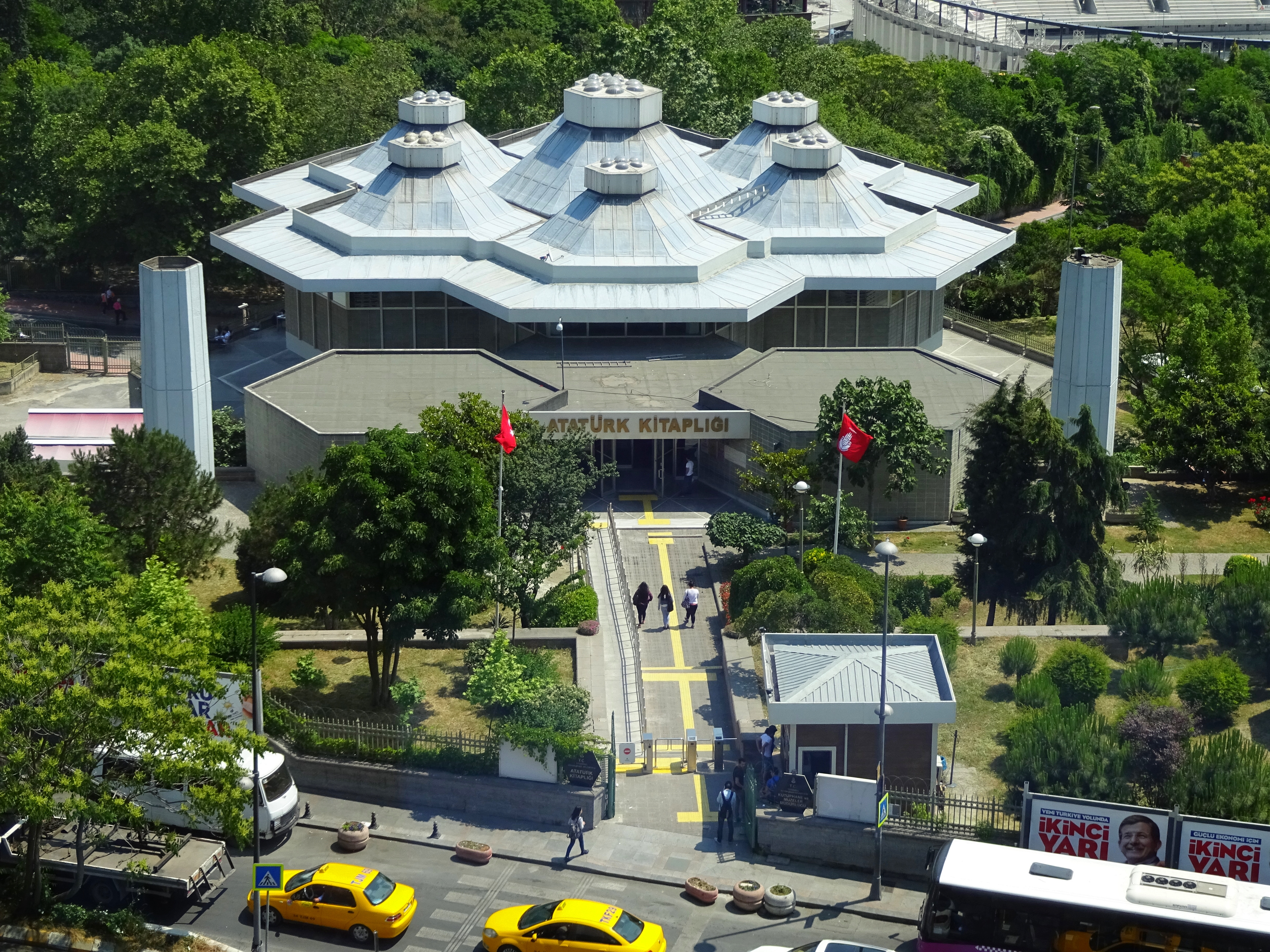 Atatürk Kitaplığı, Gümüşsuyu Mh., 34437 İstanbul, Turkey. Since 1981, the building serves as the Atatürk Library, it is open 24 hours 7 days. Construction of architect Sedat Hakkı Eldem .